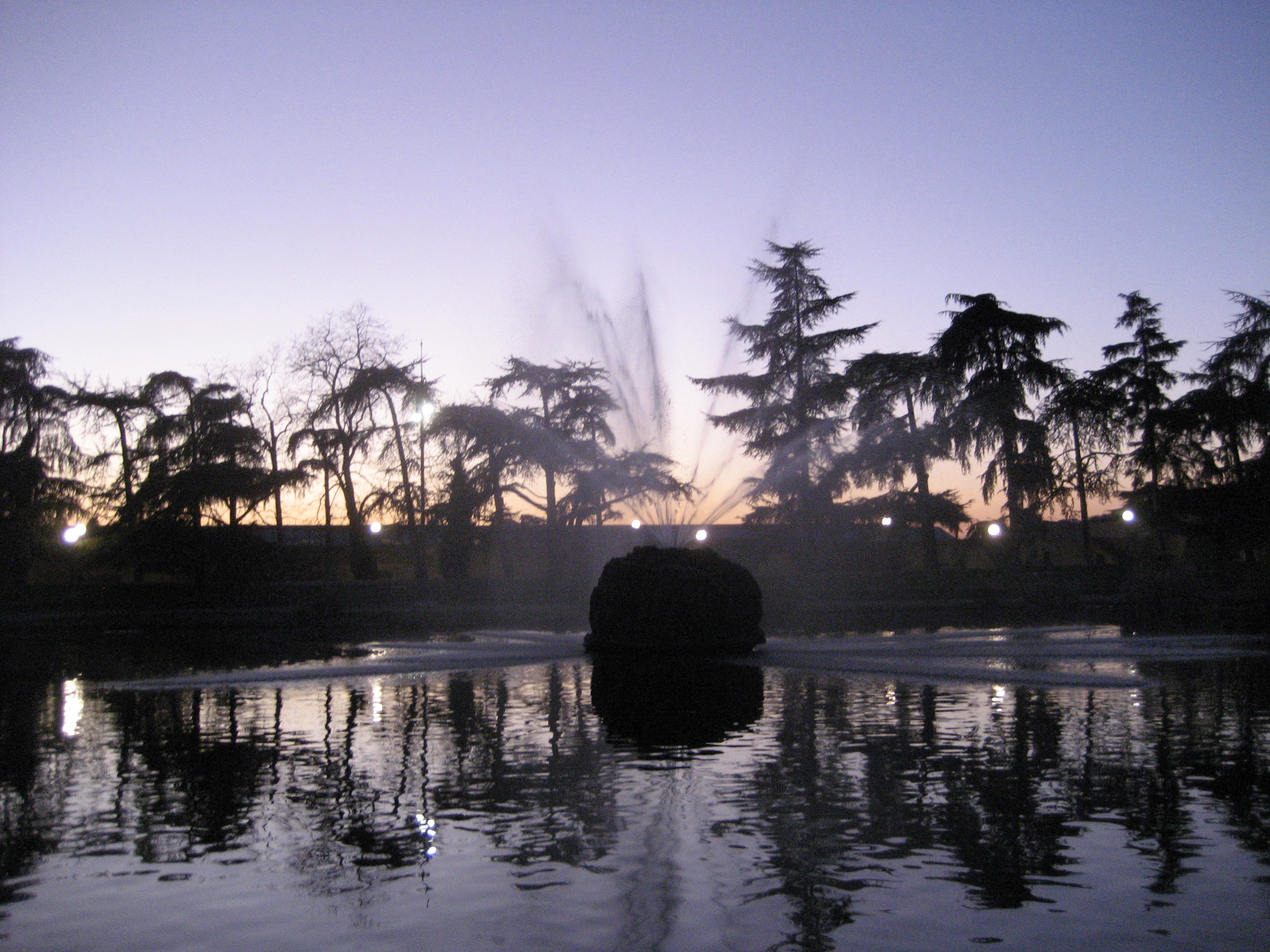 Fountain in the garden near Fortezza da Basso in Firenze (Italy) at night